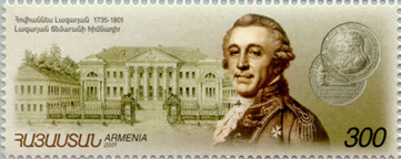 Stamp of Armenia : Hovhannes Lazarian